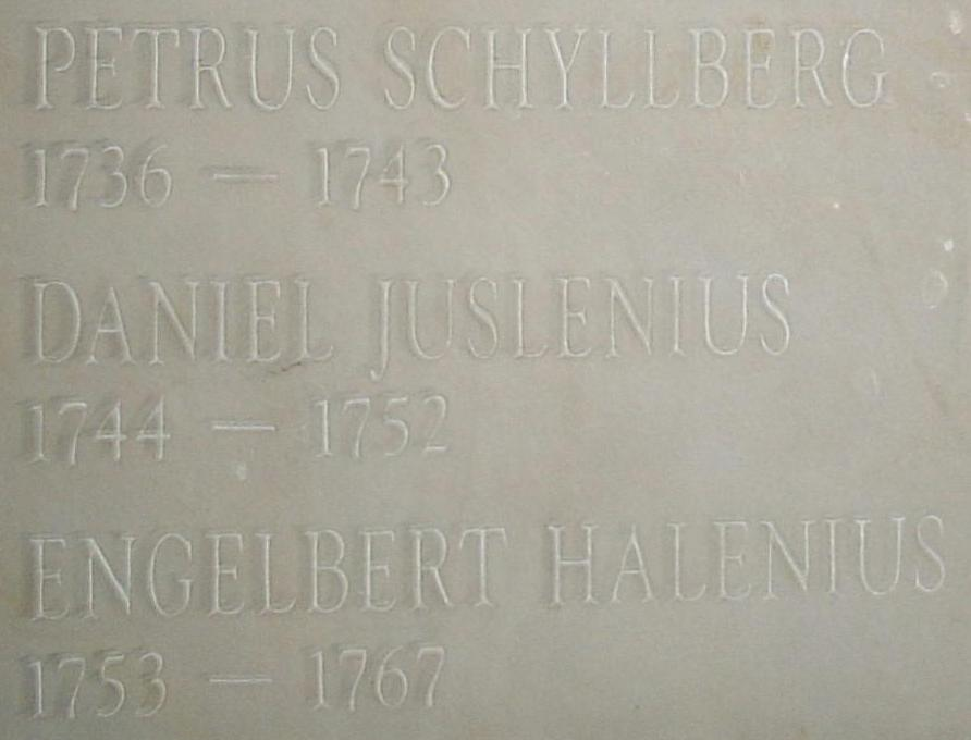 Photo by Harri Blomberg.